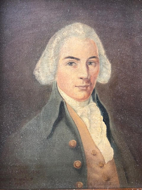 Samuel Calvin as painted by his grandson, Samuel Calvin, an artist from Hollidaysburg, PA